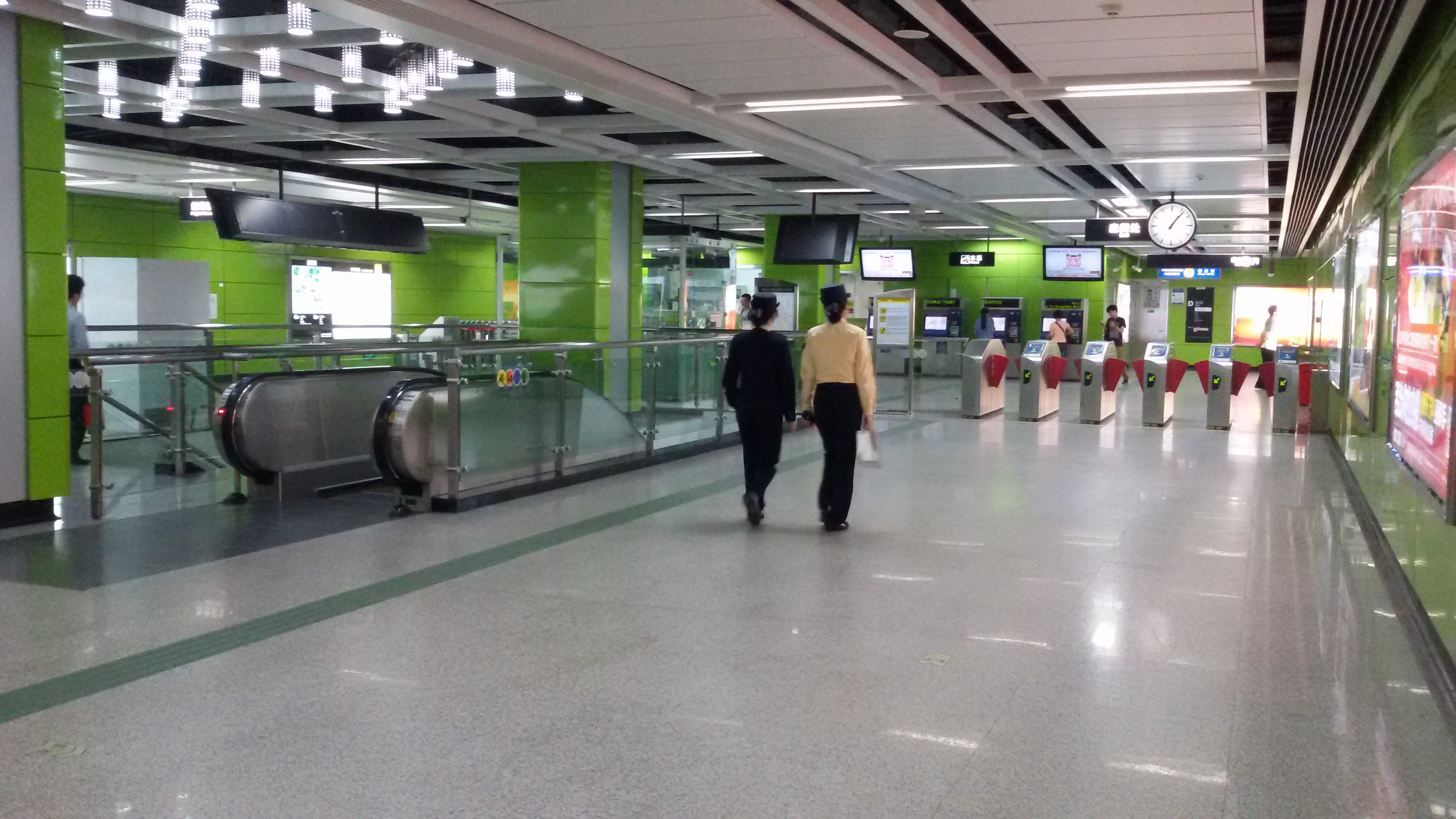 Station Concourse for Jingxi Nanfang Hospital Station in Guangzhou Metro 粵語: 廣州地鐵，京溪南方醫院站嘅站廳。